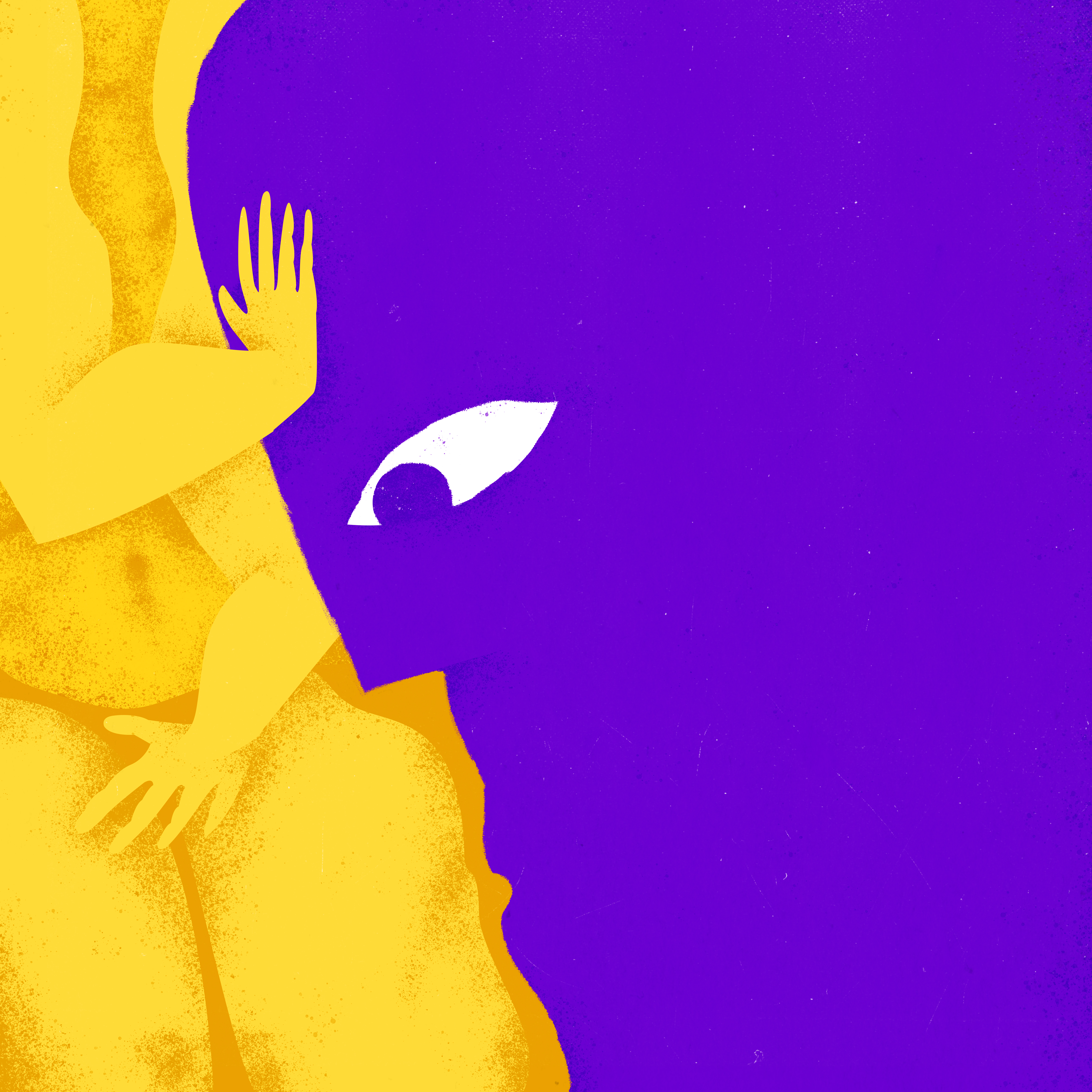 Illustration made for the chair of Roldán Illustration, FADU, UBA. An undefined body oppressed by the external gaze.